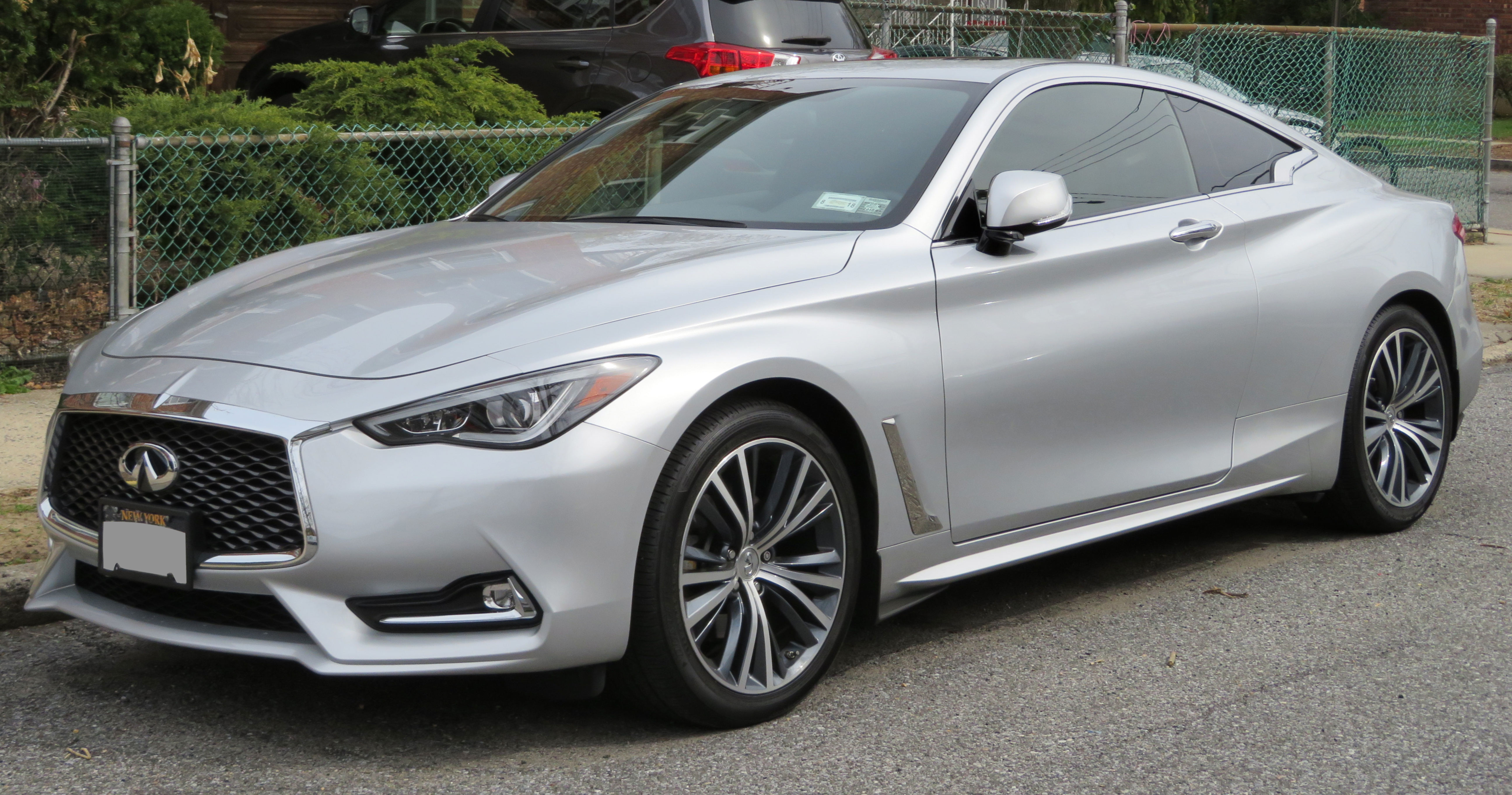 In Queens, New York